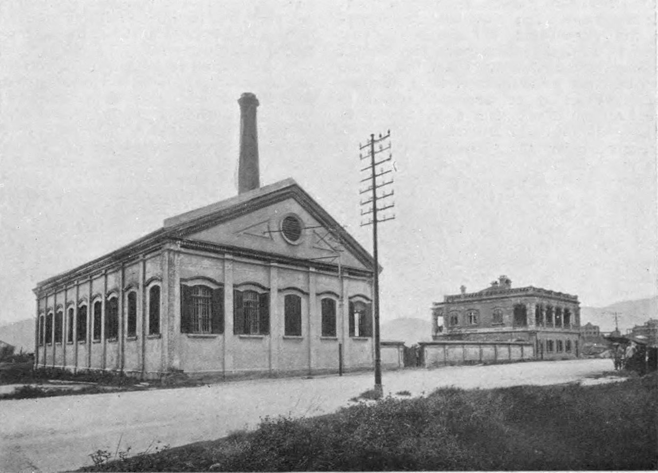 China Light and Power Company at Kowloon. This is the first power station of China Light and Power Company. Commissioned on Chatham Road, Hung Hom in 1903, it had a generating capacity of 75kW. Picture taken between 1903 and 1908.